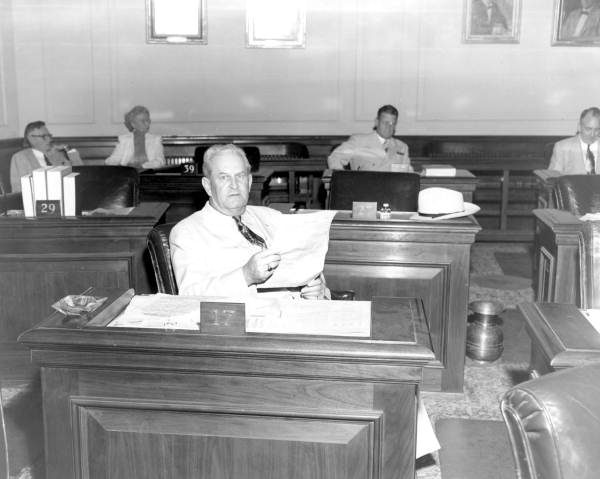 Portrait of Sen. J.G. Black